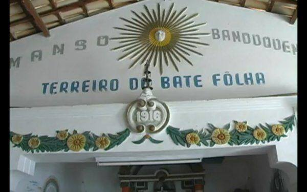 Candomble